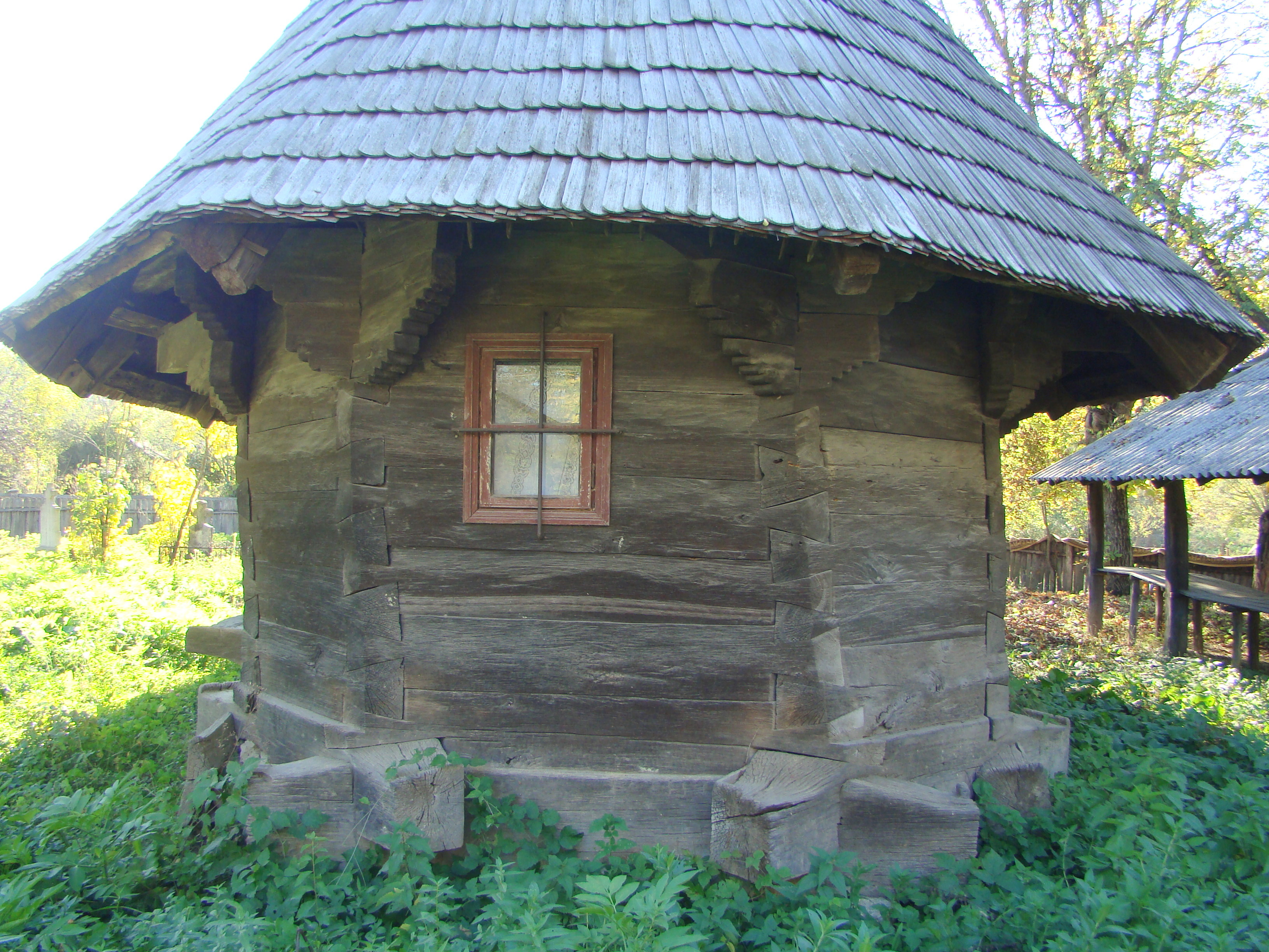 Wooden church in Sura, Gorj county, Romania